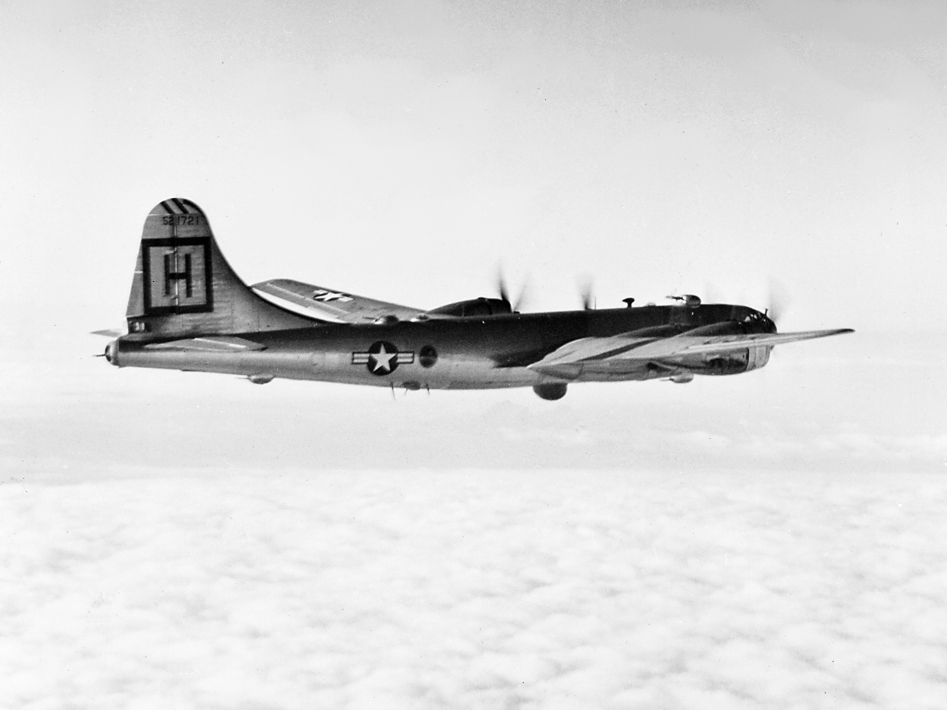 A U.S. Air Force Boeing B-29-90-BW Superfortress bomber (s/n 45-21721) from the 345th Bombardement Squadron, 98th Bombardement Group over Korea. This aircraft crashed after takeoff 8 km north of Yokota Air Base, Japan, on 7 February 1952. The crew of 13 was killed.